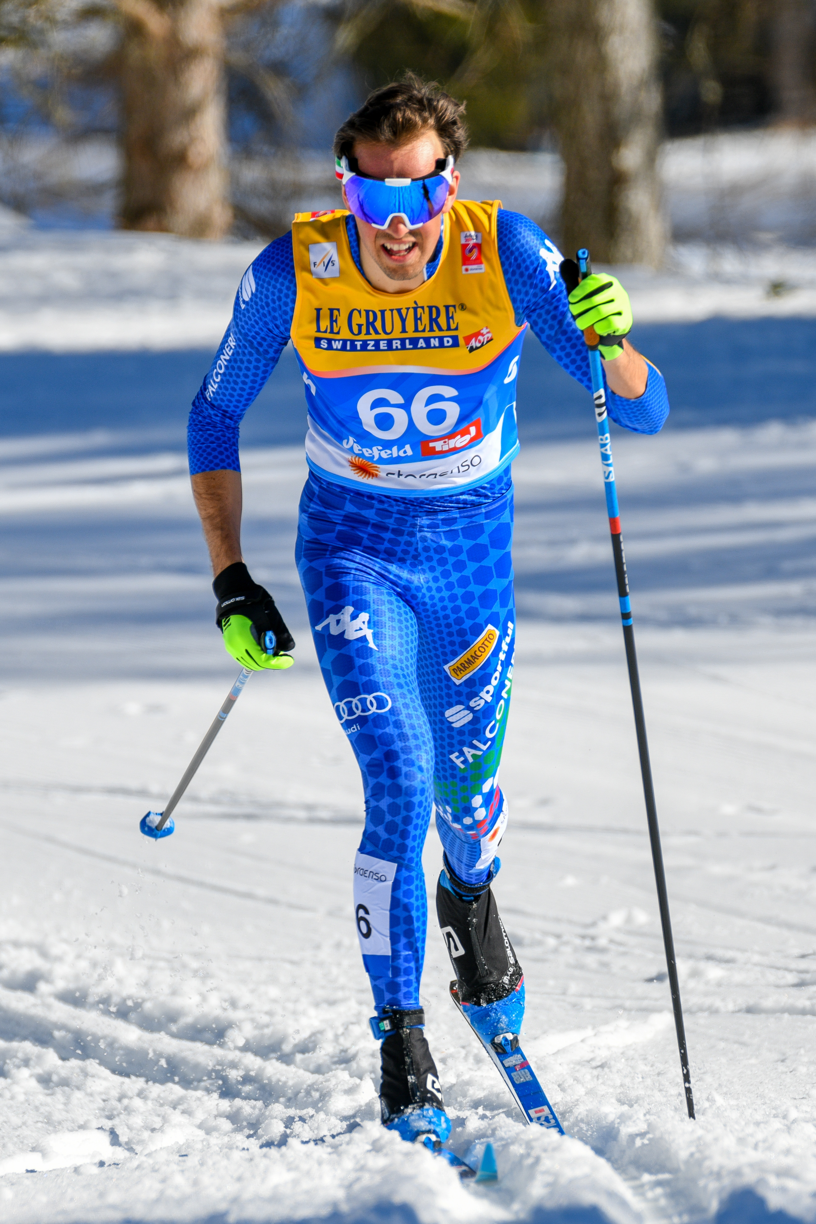 FIS Nordic Wolrd Ski Championships Seefeld 2019 - Men 15km Interval Start Classic. Picture shows Francesco De Fabiani (ITA).